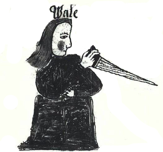 An illustration of the Norse god Váli, from an Icelandic 17th century manuscript. A scan of a black and white photography.